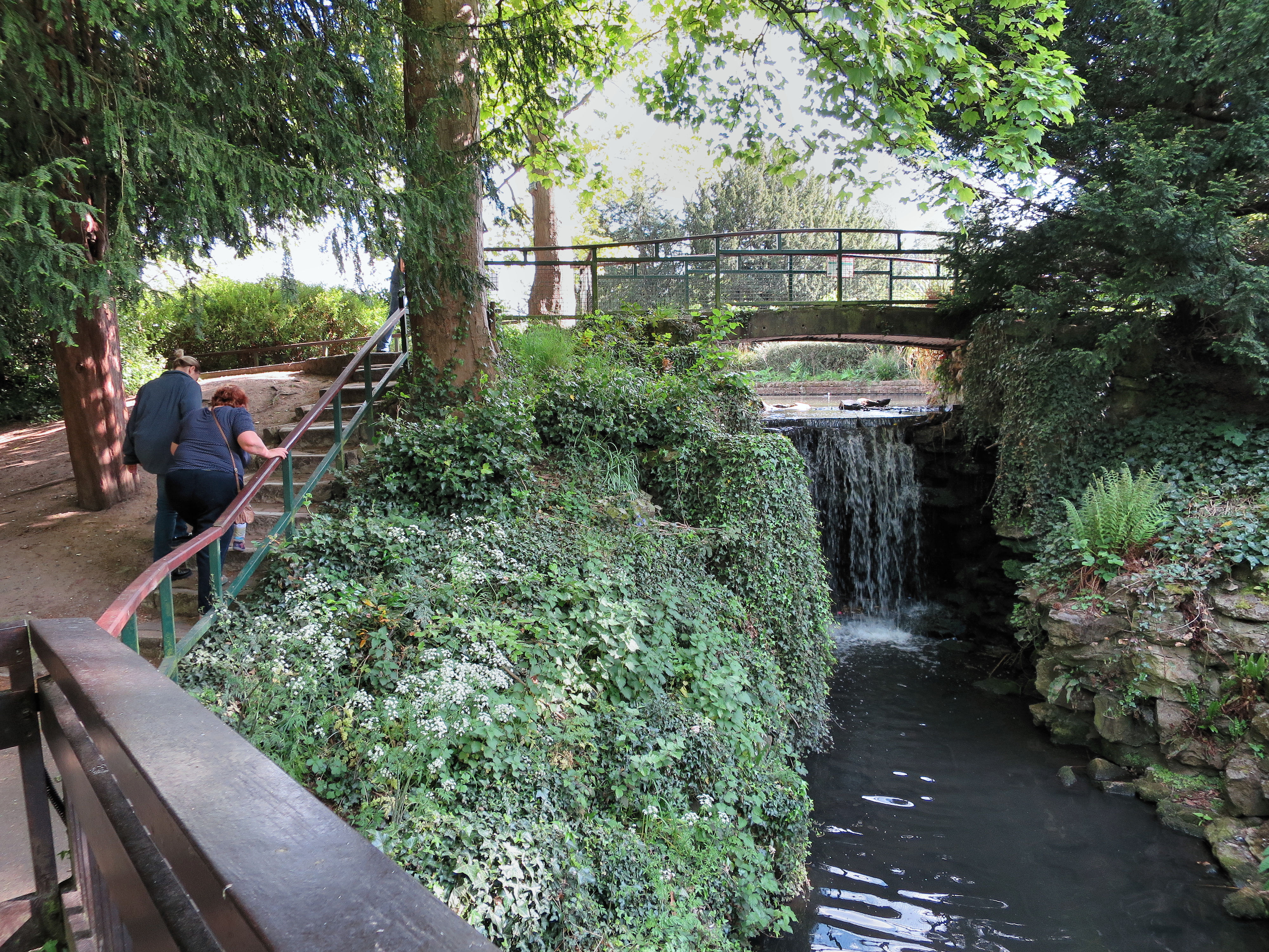 The River Beck and the small lakes make it special. But there's already something special about most successful linear parks. And this one seems beautifully cared for. When we visited there was plenty to see. with something new around every bend. Lots of other people enjoying themselves, so it felt calm and safe. Great kids playground as well. Take a look at the Friends of the Park website. It includes an interesting chronology page. Which shows the history going back to the Romans; the Doomesday Book; and the 17th to 19th centuries when the area was landscaped and the lakes created. It illustrates how luck and money play a big part in what gets loved and cherished and saved from the past. It's also an example of how the local state - represented at the time by Beckenham Council - had to step in to prevent it all being turned into "an up-market gated housing estate." ______________________________________ § Description of his journey along the River Beck in March 2015 by premier blogger Diamond Geezer.